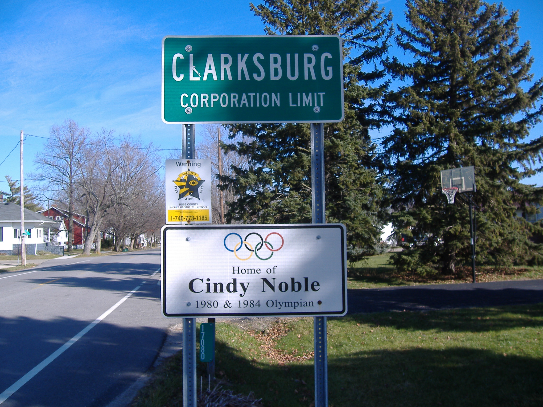 Sign commemorating Cindy Noble for Olympic achievements.